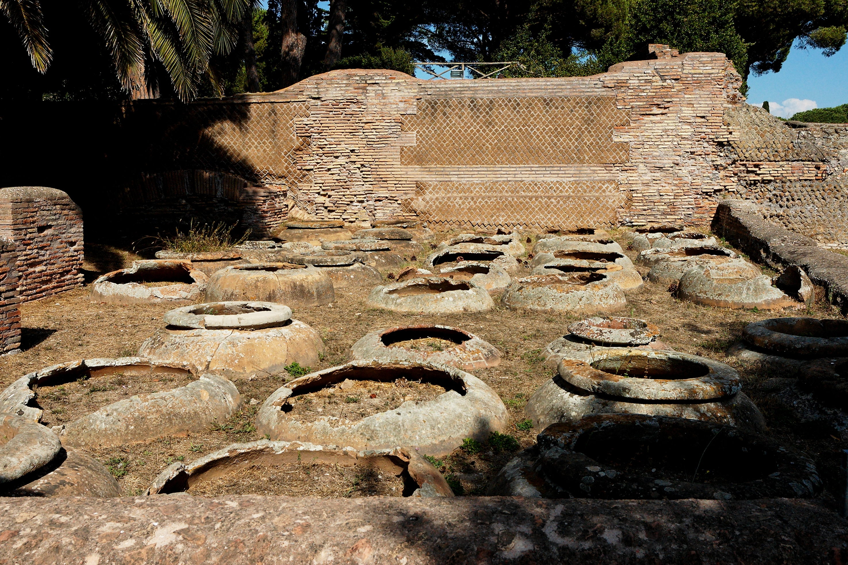 Storing-room with jars (regio I, insula IV). Ostia Antica, Latium, Italy.